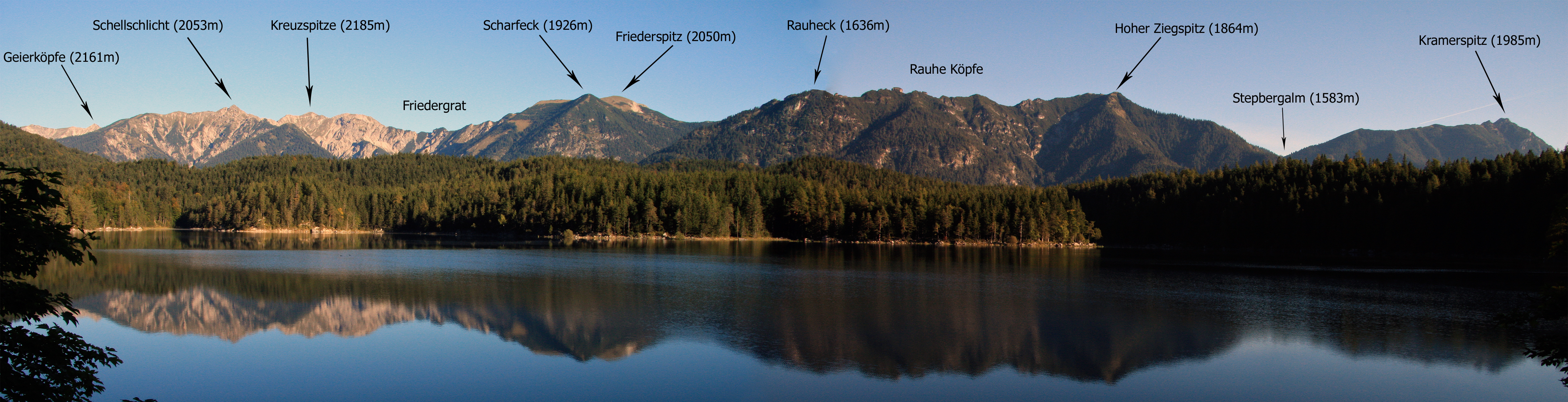 The Ammergau Alps as seen from lake Eibsee